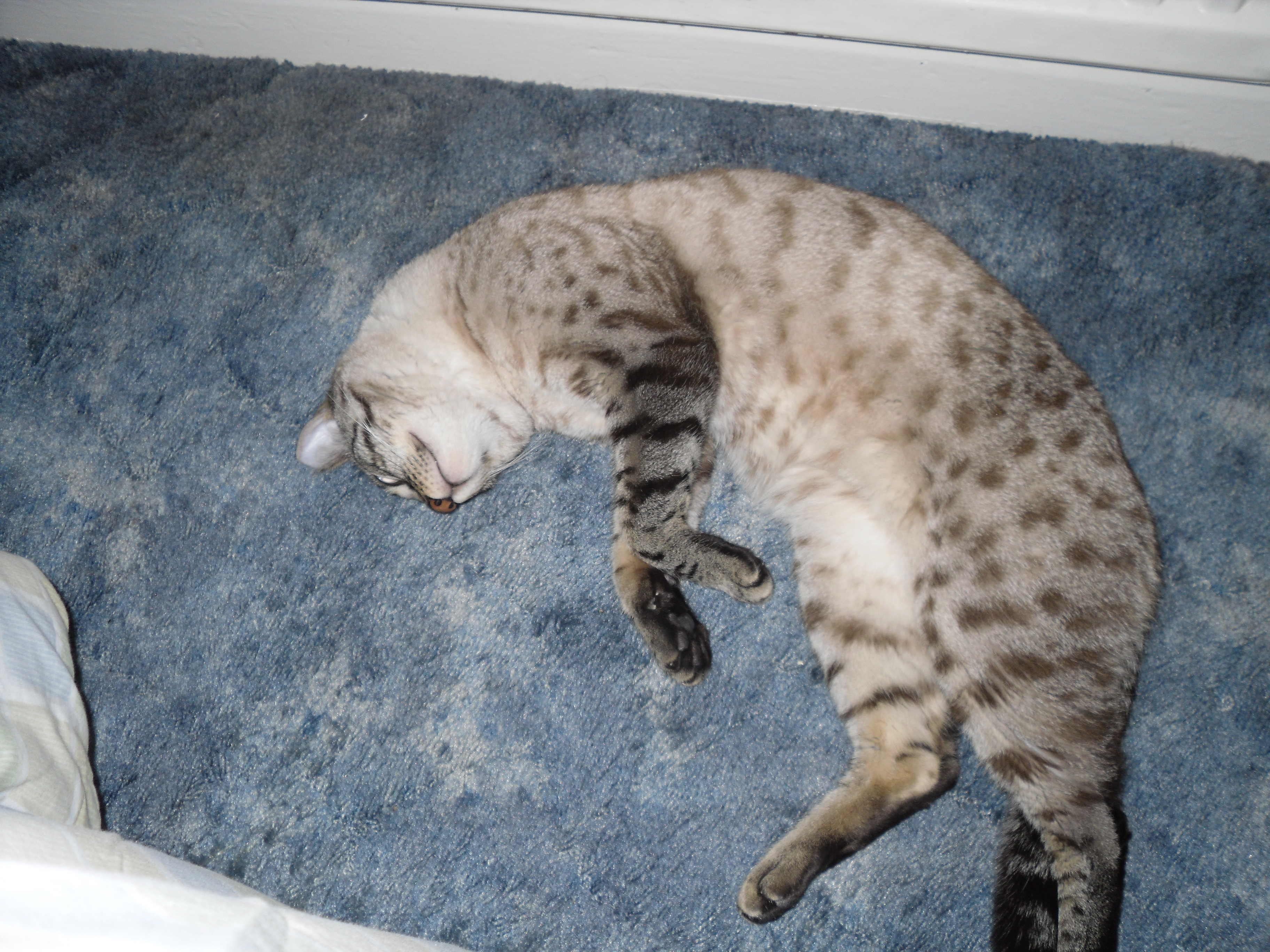 Three year old Bengal cat